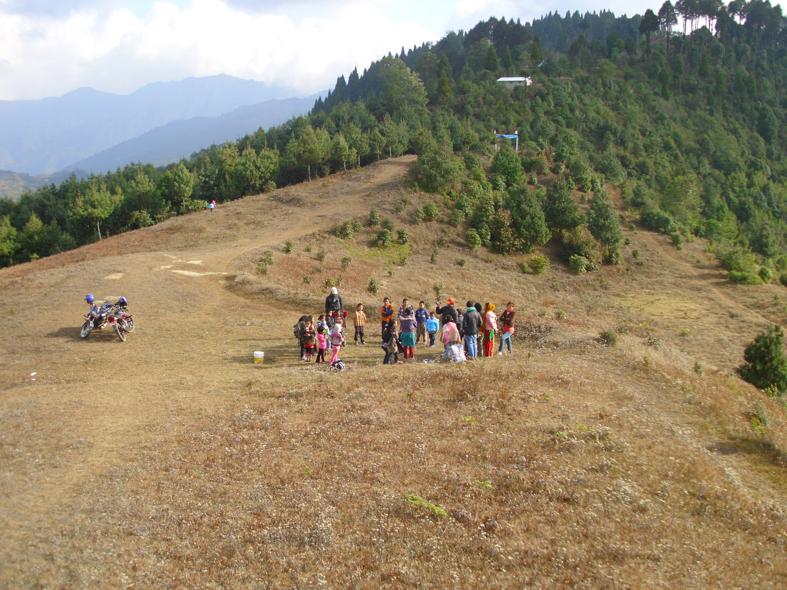 A tourist spot in Panchthar District of Nepal.